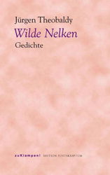 Book cover of Jürgen Theobaldy, "Wilde Nelken" 2005